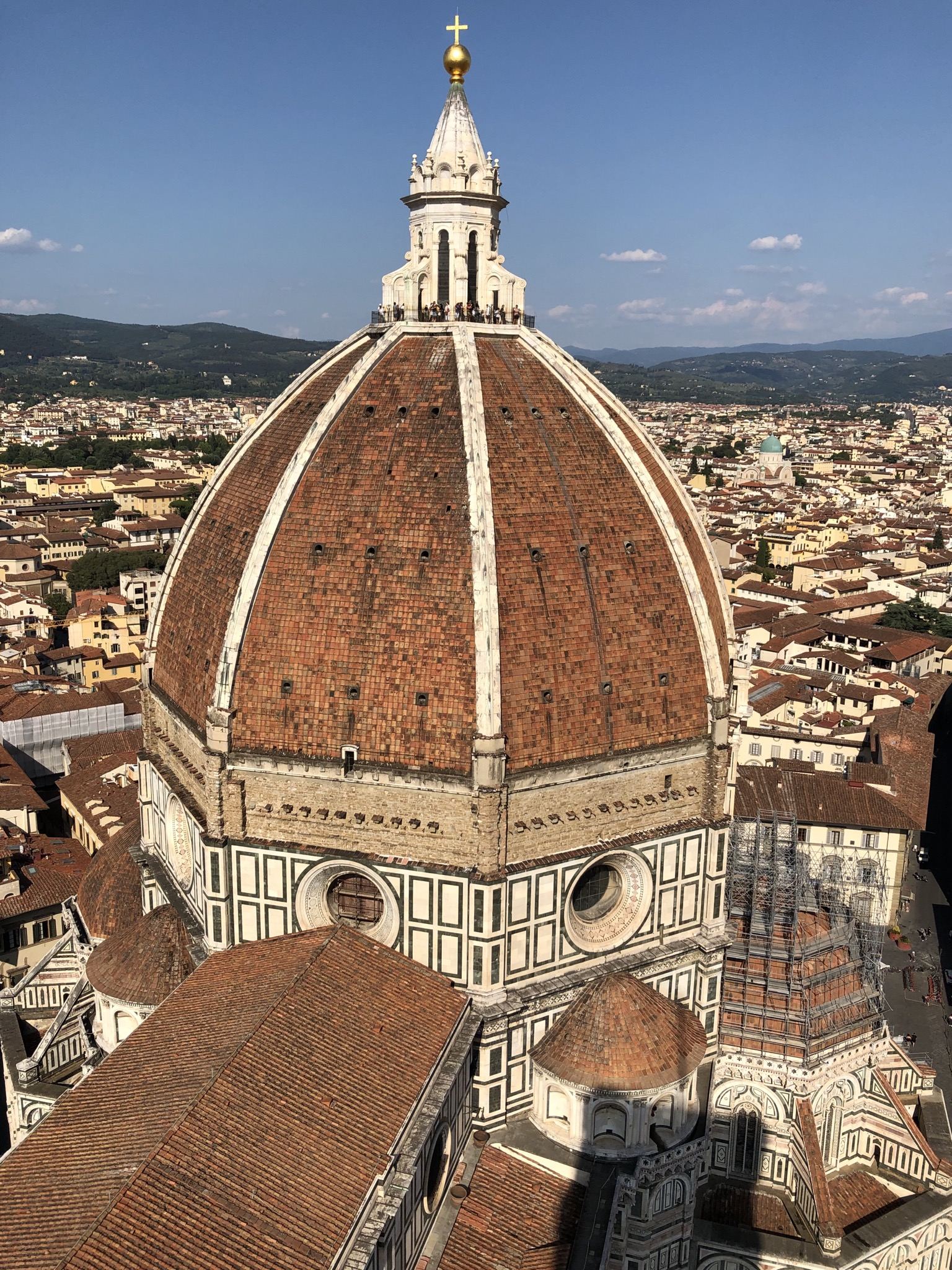 Brunelleschi’s dome seen from the bell tower